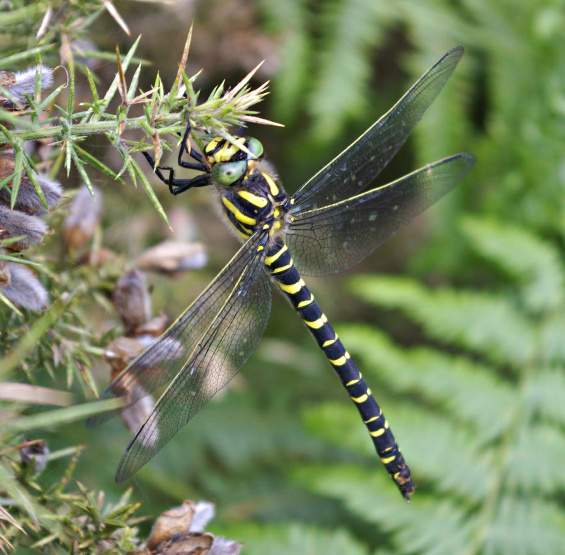 A Golden-ringed Dragonfly (Cordulegaster boltonii ) in South Wales